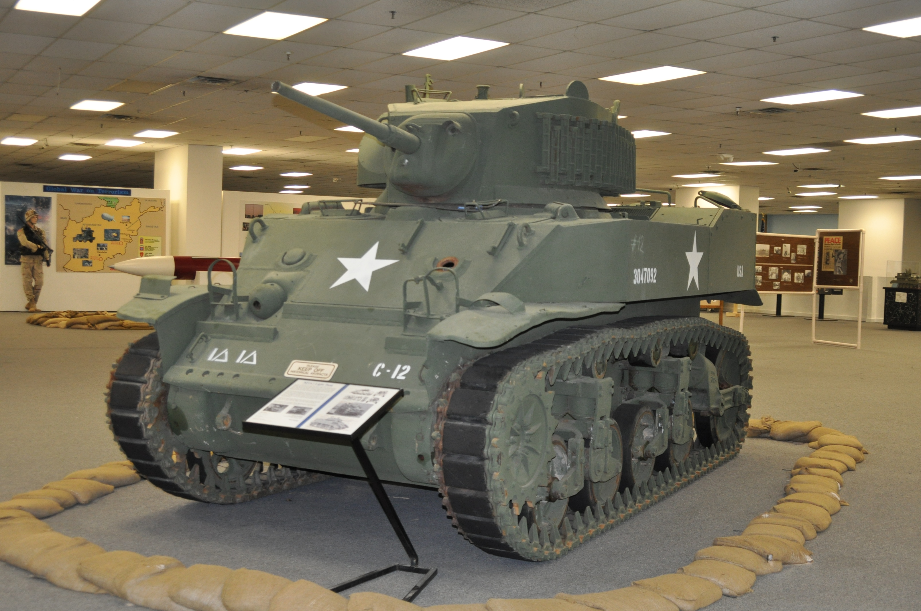 The M5A1 Stuart Tank, used by Iron Soldiers in World War II.